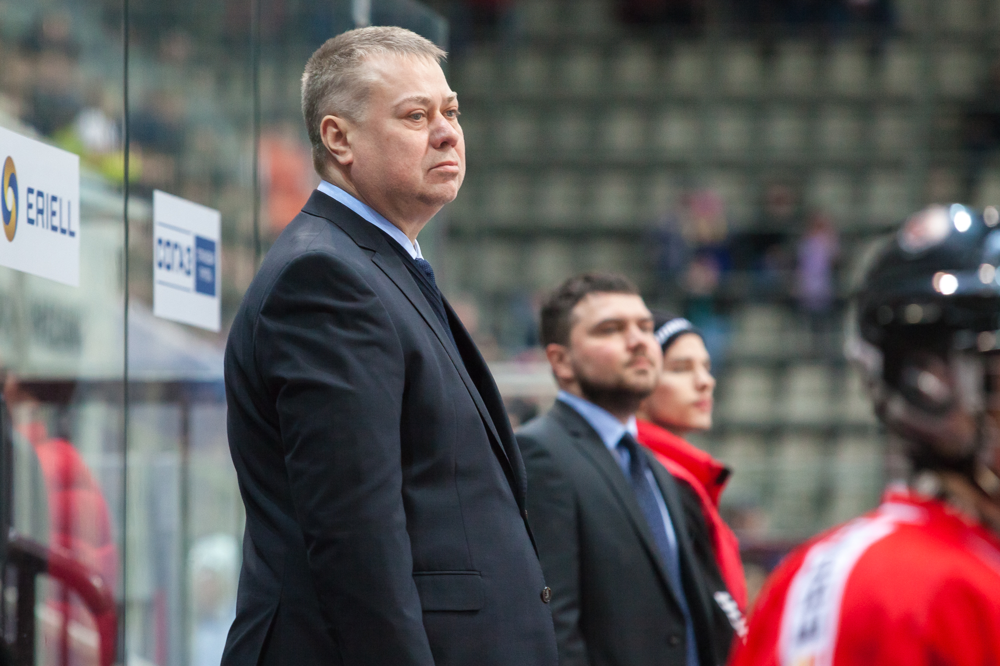 «Кузнецкие Медведи» на игре